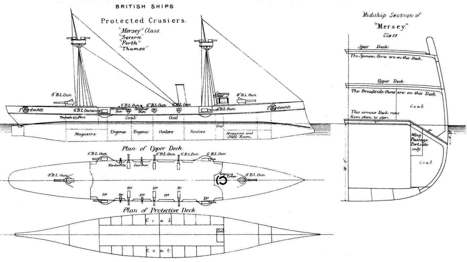 Starboard elevation, deck plan and sectional views of British Mersey class cruisers.